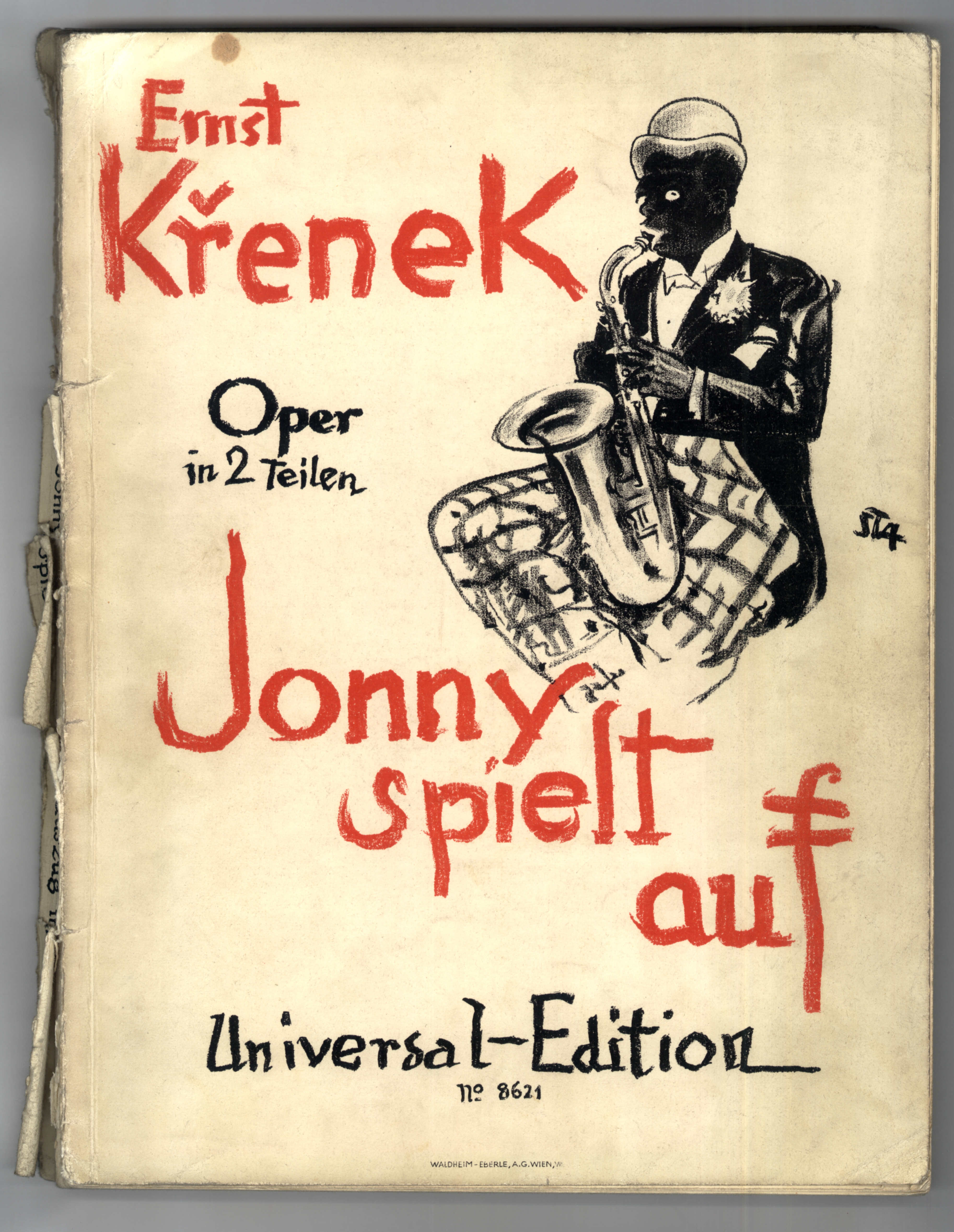 Ernst Krenek, Jonny Strikes Up, cover of the piano score (1st ed.)